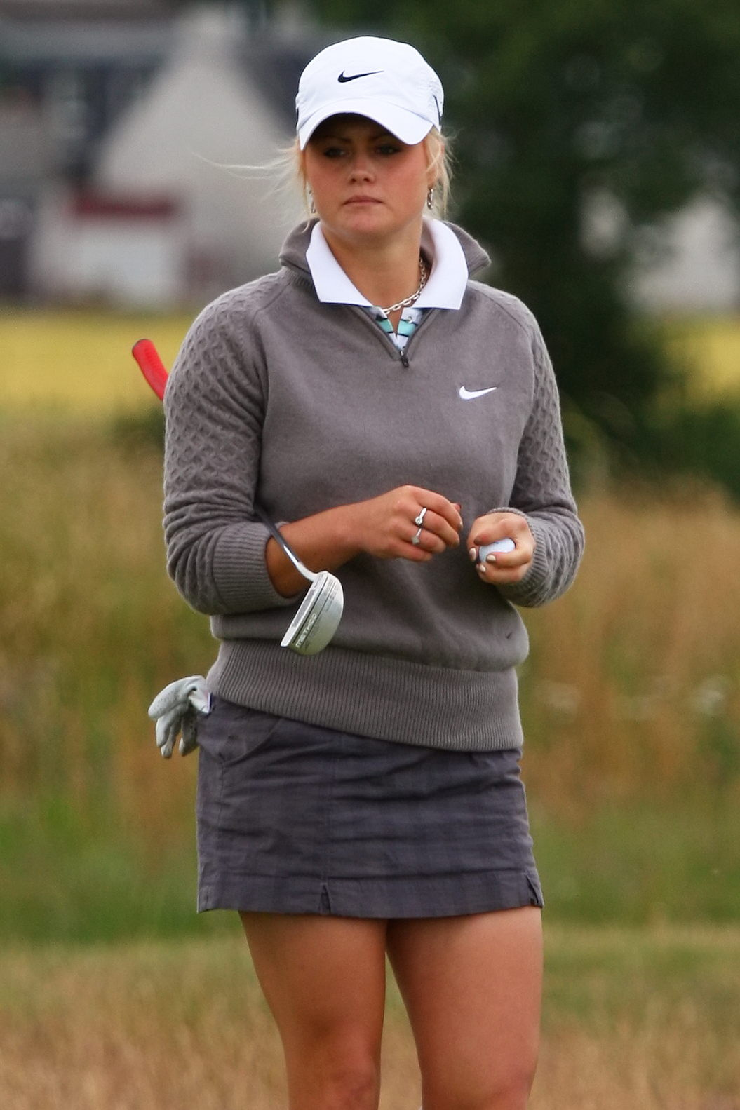 CARNOUSTIE, SCOTLAND - JULY 25: Carly Booth of Scotland on the 17th green during the final qualifying round for the 2011 Ricoh Women's British Open at Panmure GC on July 25, 2011 in Carnoustie, Scotland. (Photo by Wojciech Migda)